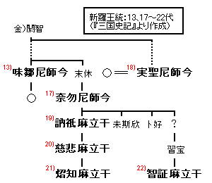 the geneology of Silla( 13th King and 17th King~ 22nd King) / 新羅王系図(第13代及び第17代～22代)